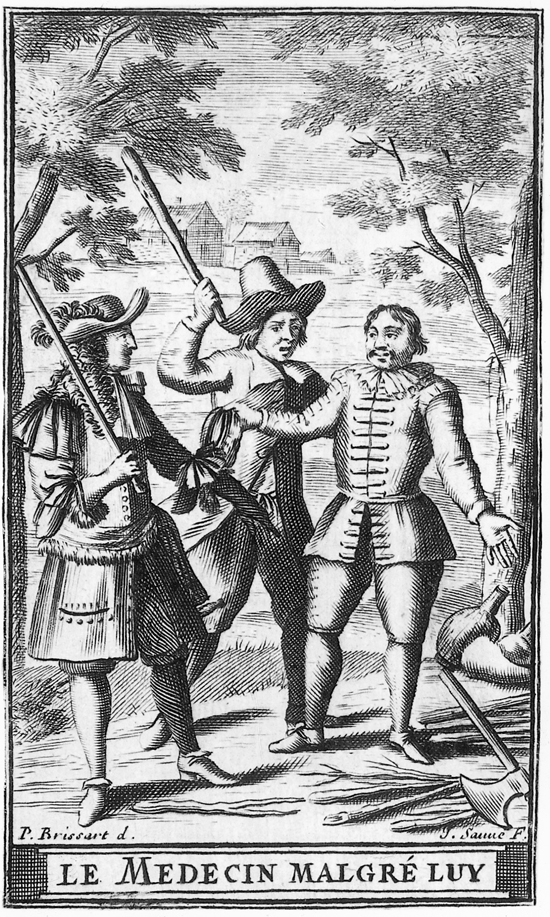 Illustration by Pierre Brissart for a 1682 edition of The Doctor in spite of himself ("Le Médecin malgré lui") by Molière